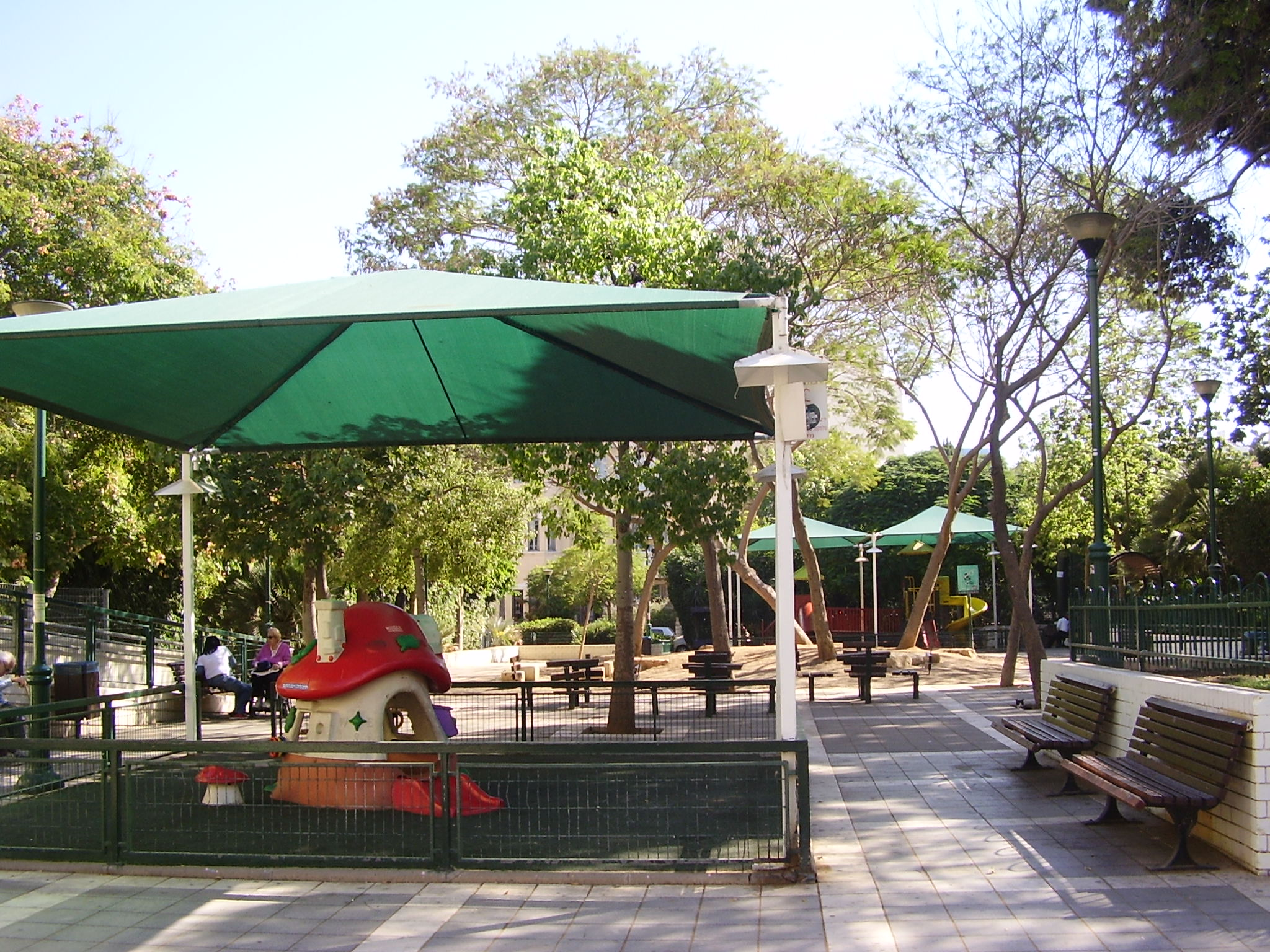 sheinkin street in tel aviv